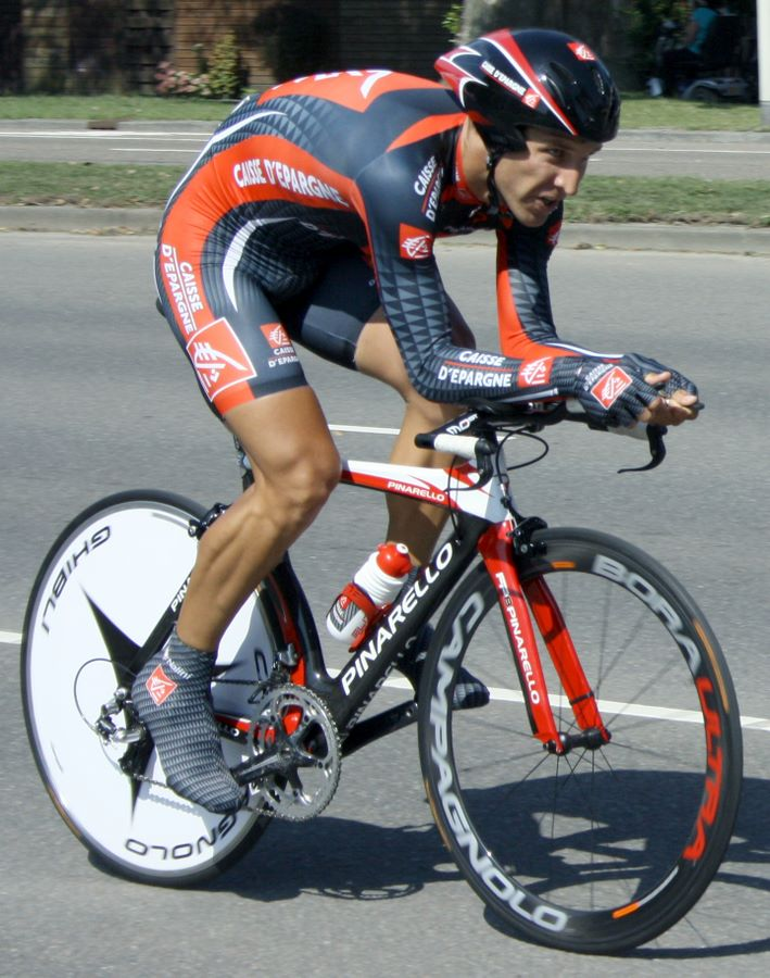 Mathieu Drujon at the 2009 Eneco Tour prologue